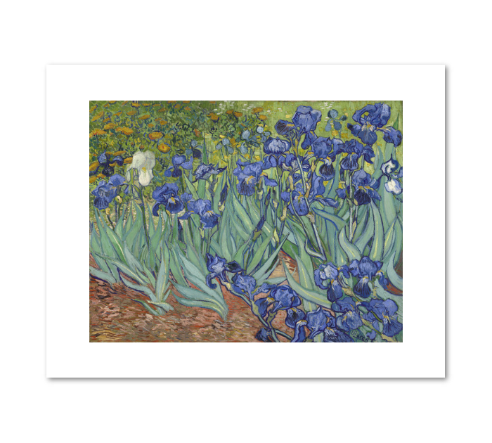 An example of a print provided by